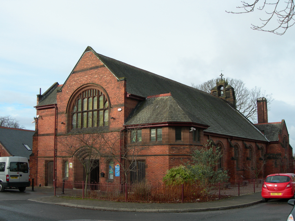 Photograph of the former Roman Catholic Church, Winwick Hospital